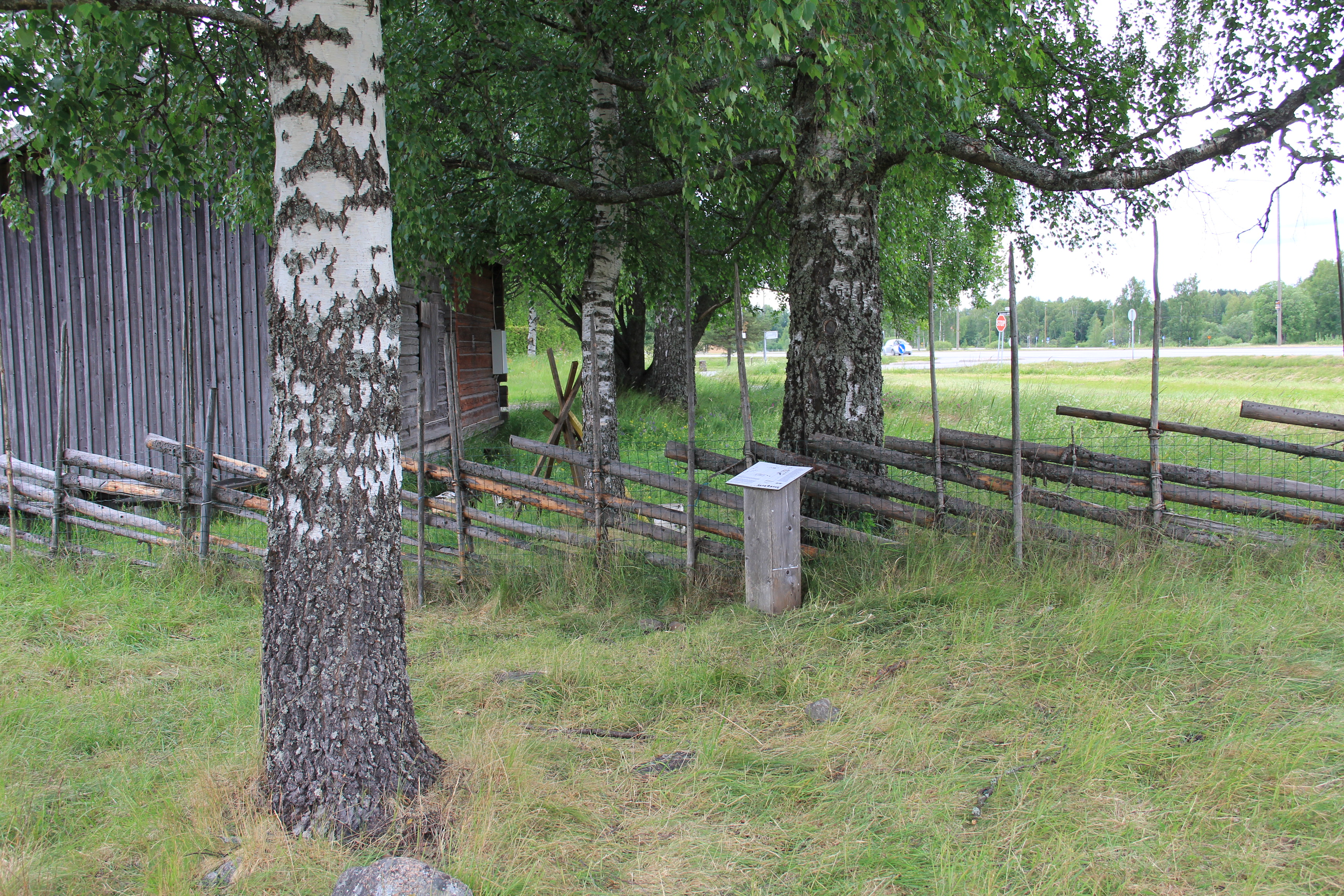 Luistari archaeological site, Eura, Finland. - Wooden pole at the "Euran emäntä"' gravesite.